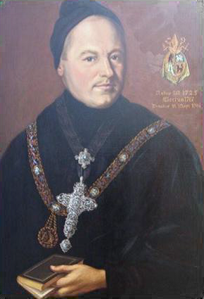 Portrait of Beda Angehrn, Prince-Abbot of St. Gall (1767-1796). From Stiftsarchiv St.Gallen.